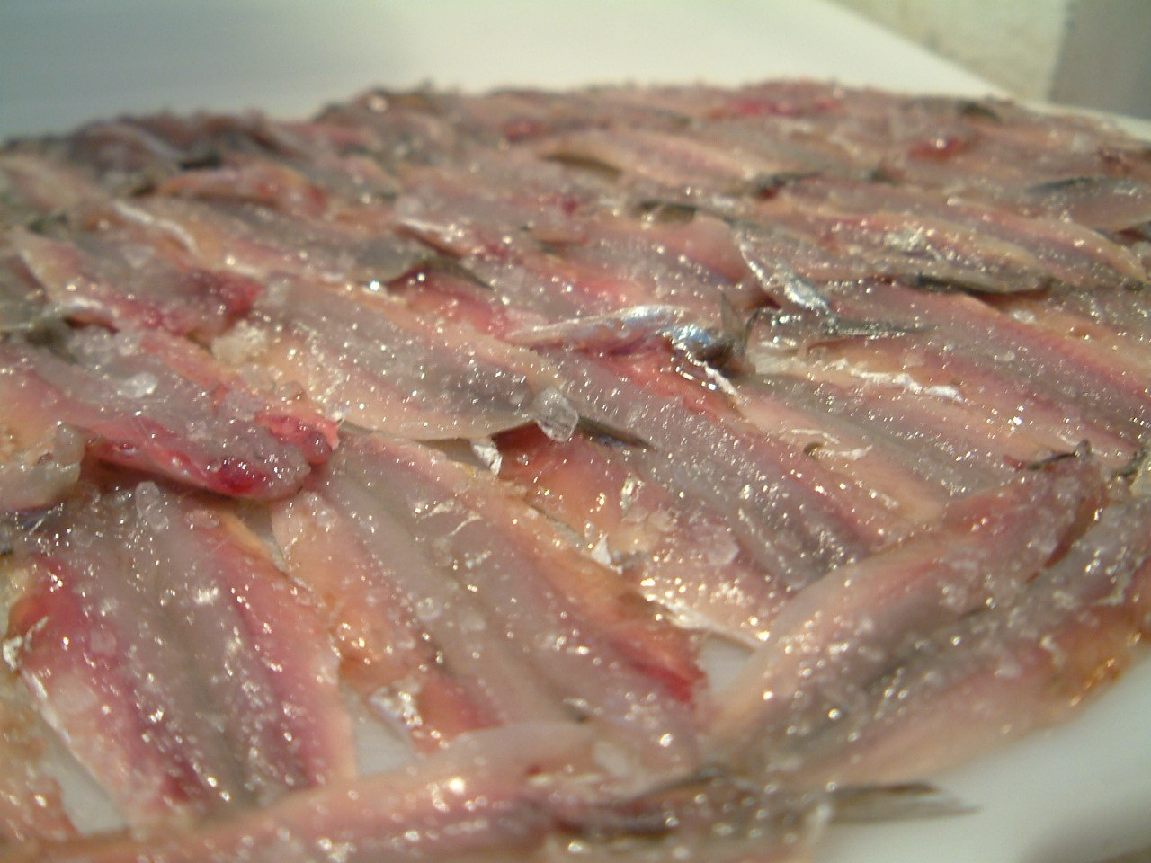 Raw anchovies with lemon and olive oil marinade